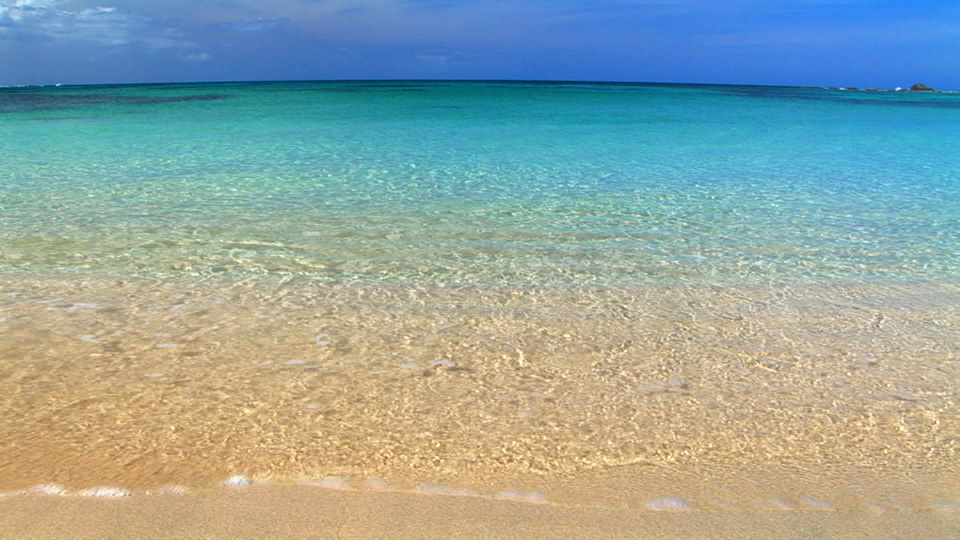 Tomori-kaigan(Tomori Beach) in Ushuku, Amami-shi, Kagoshima-ken, Japan. This beach is billed as number one beautiful beach in Amami-ohshima. Capture from HDV.